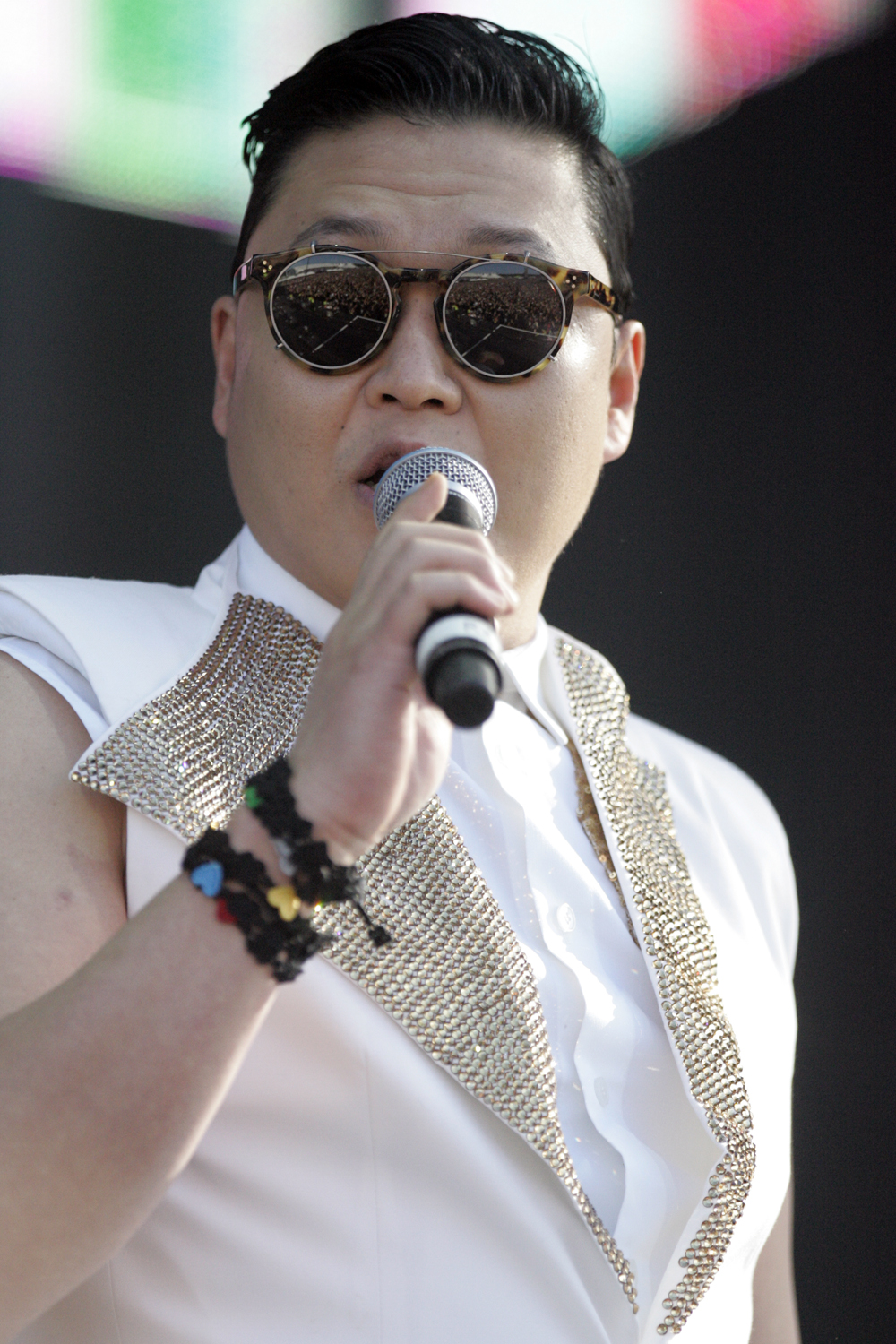 Psy performing Future Music Festival, Randwick, Sydney, Australia 2013.